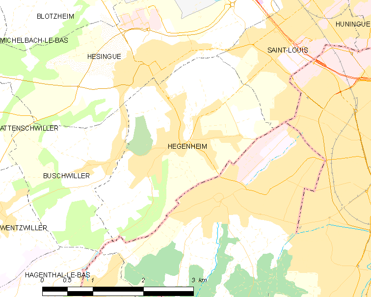 Map of French municipality